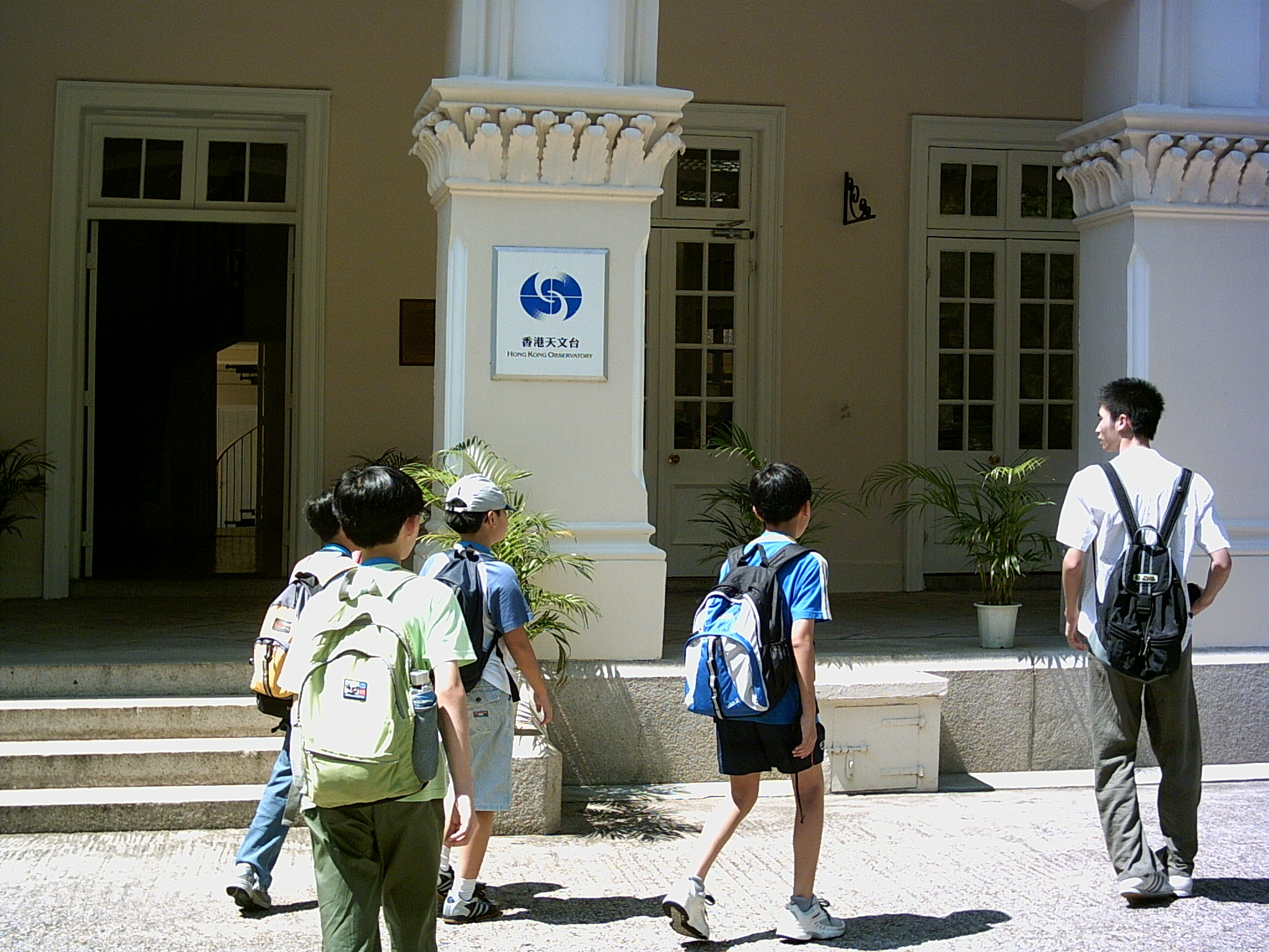 Visitors at the Hong Kong Observatory. Taken by myself in August, 2005.